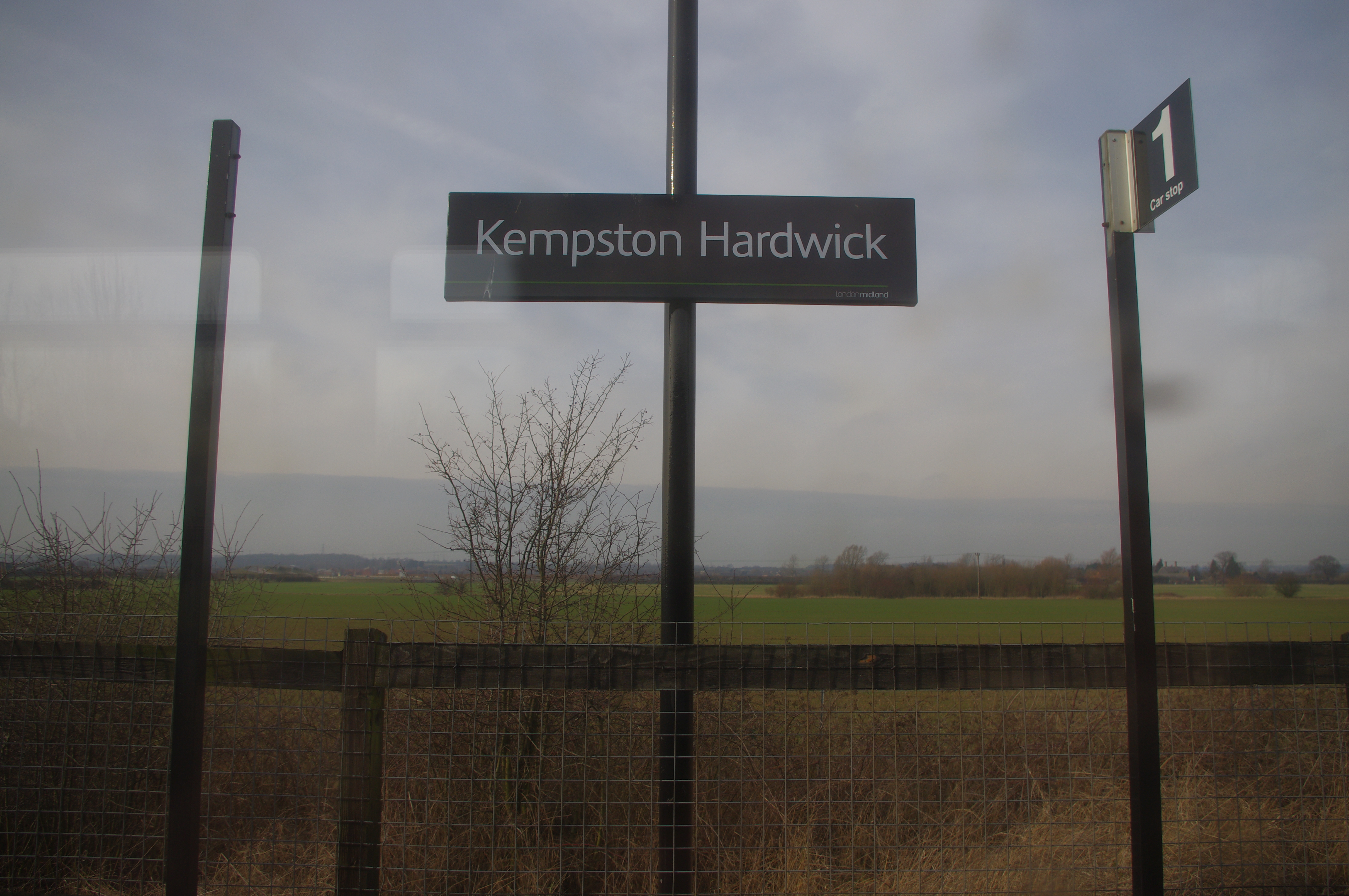 Kempston Hardwick Station